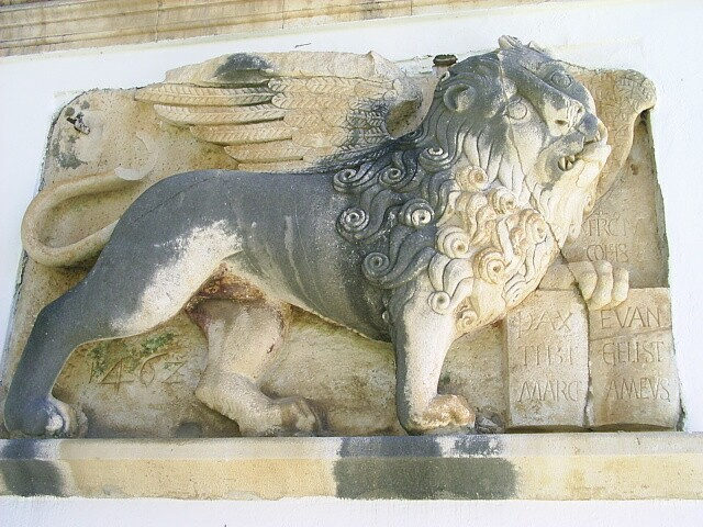 Town of Hvar on the island of the same name, Croatia